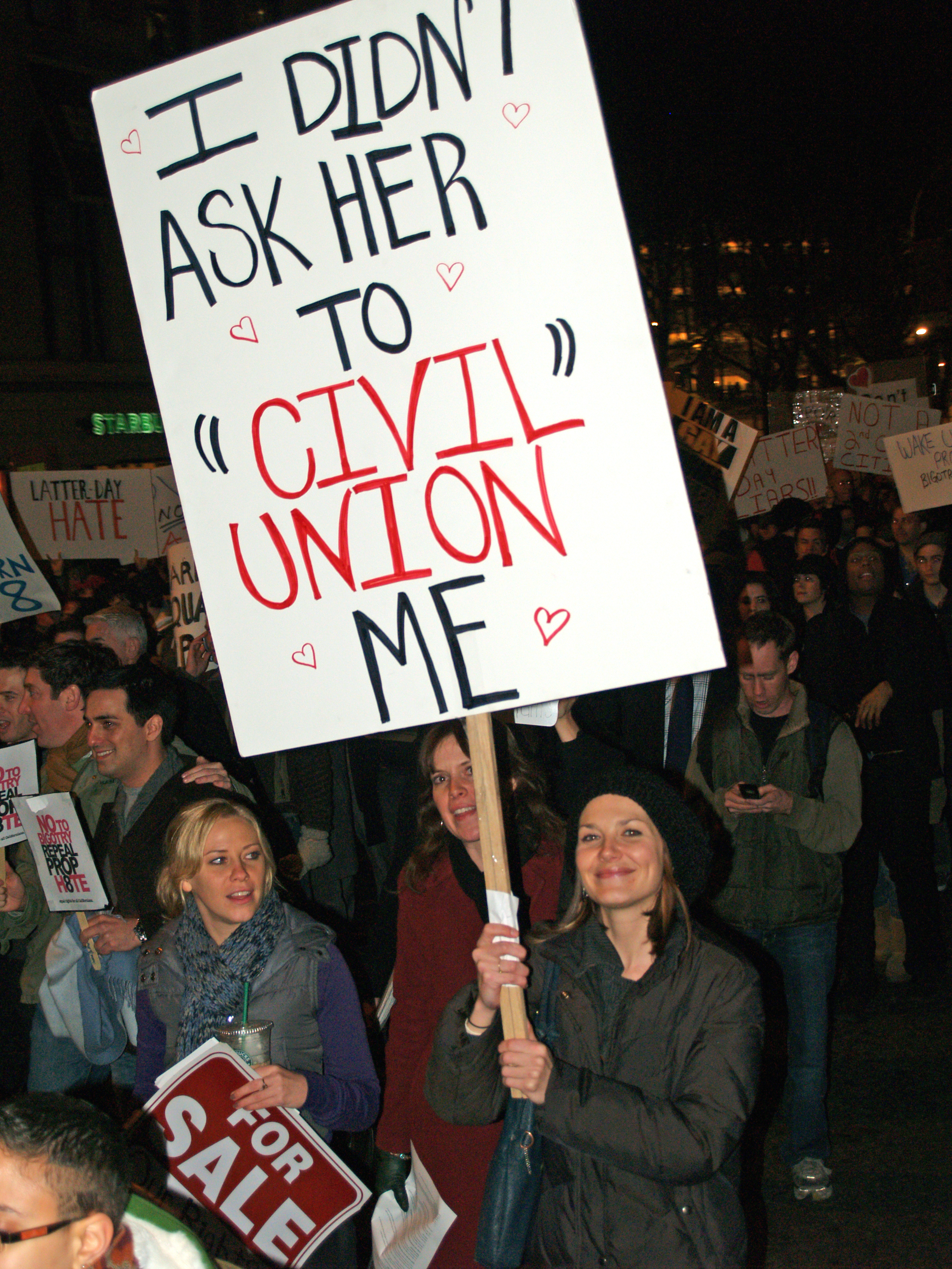 A woman makes her support of her marriage, and not civil unions, known outside the Mormon temple at New York City's Lincoln Center. Photographer's blog post about this photo and the protest.